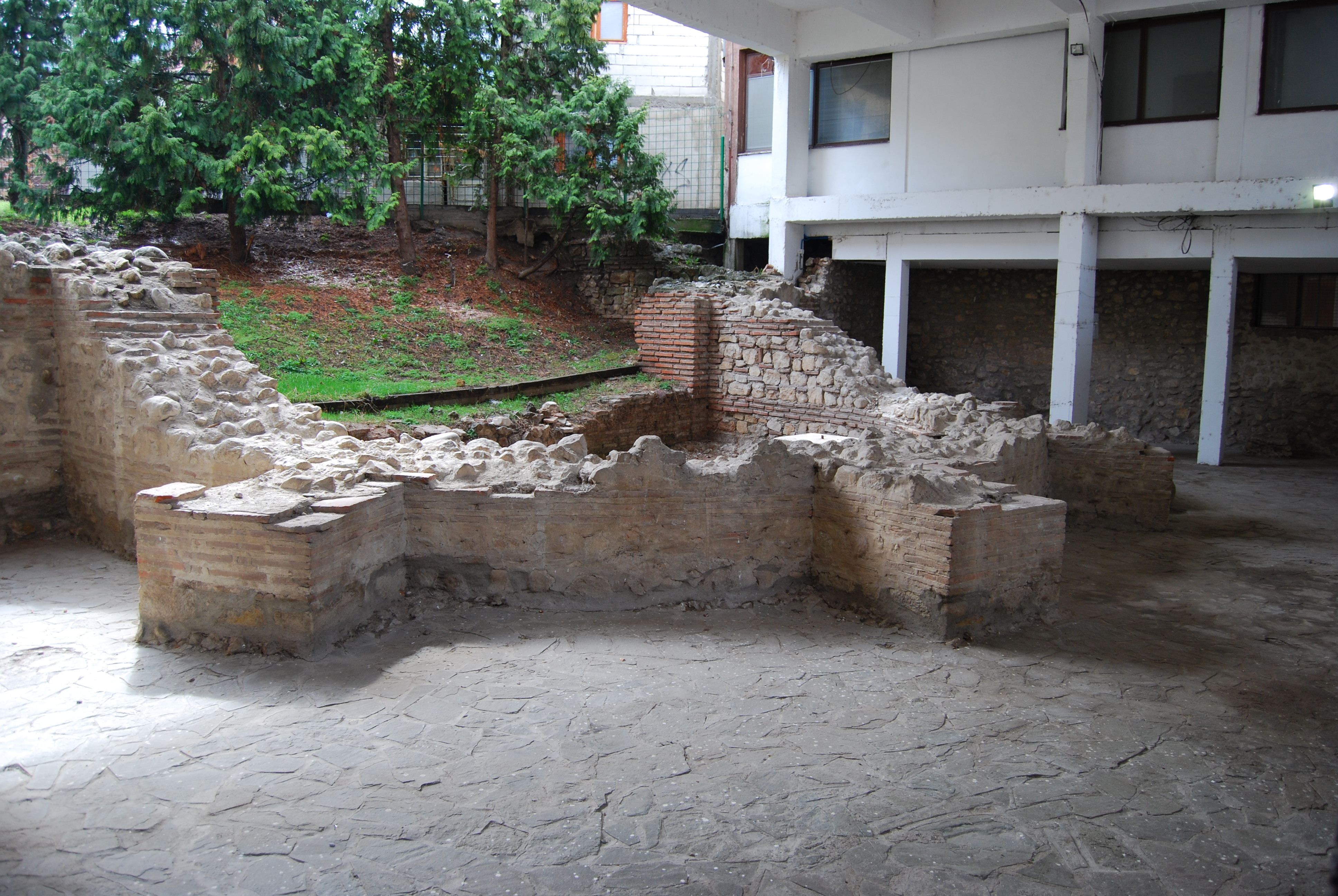 Archeological site Remesiana, Bela Palanka